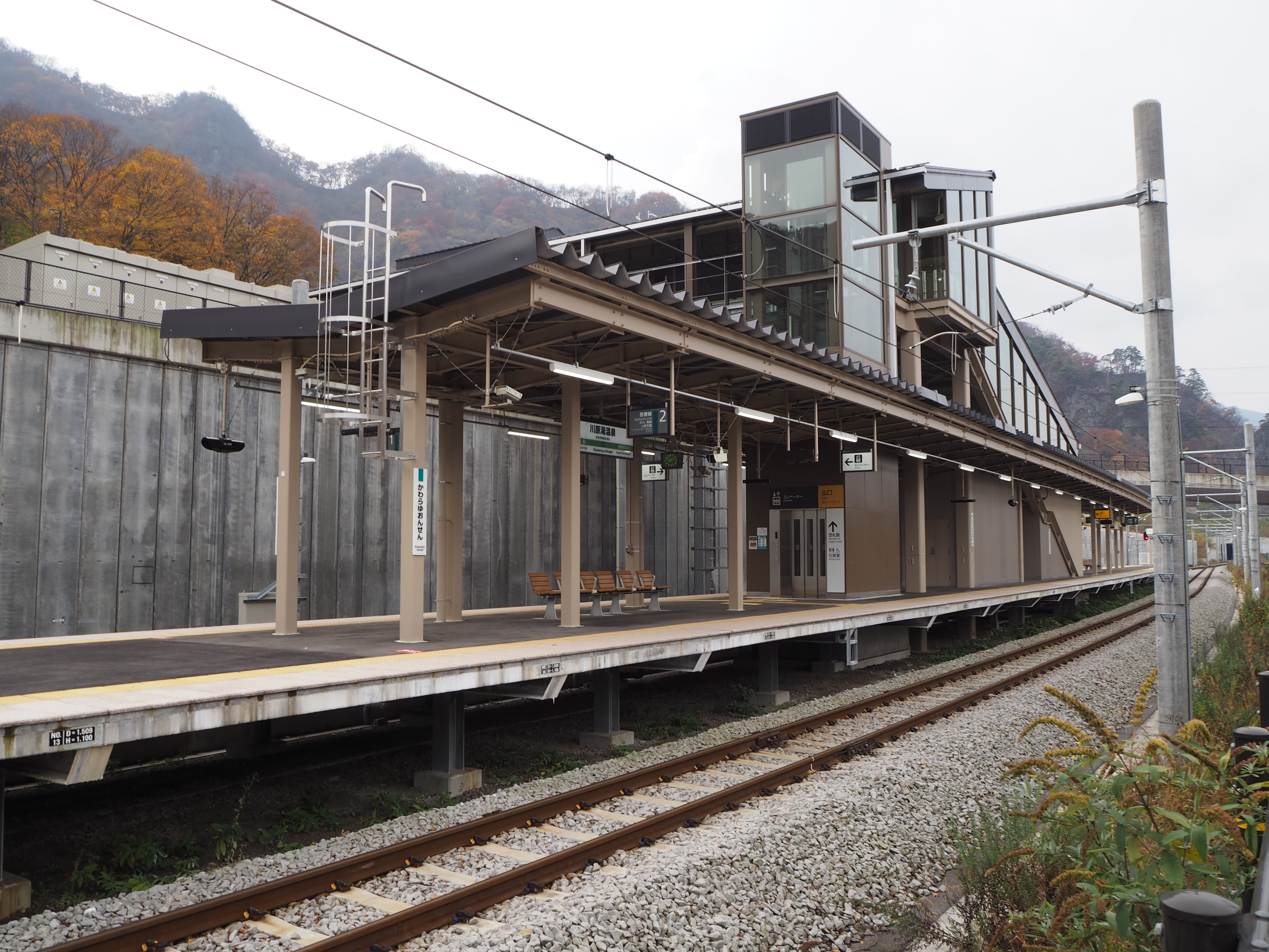 Platforms of Kawarayu-Onsen Station